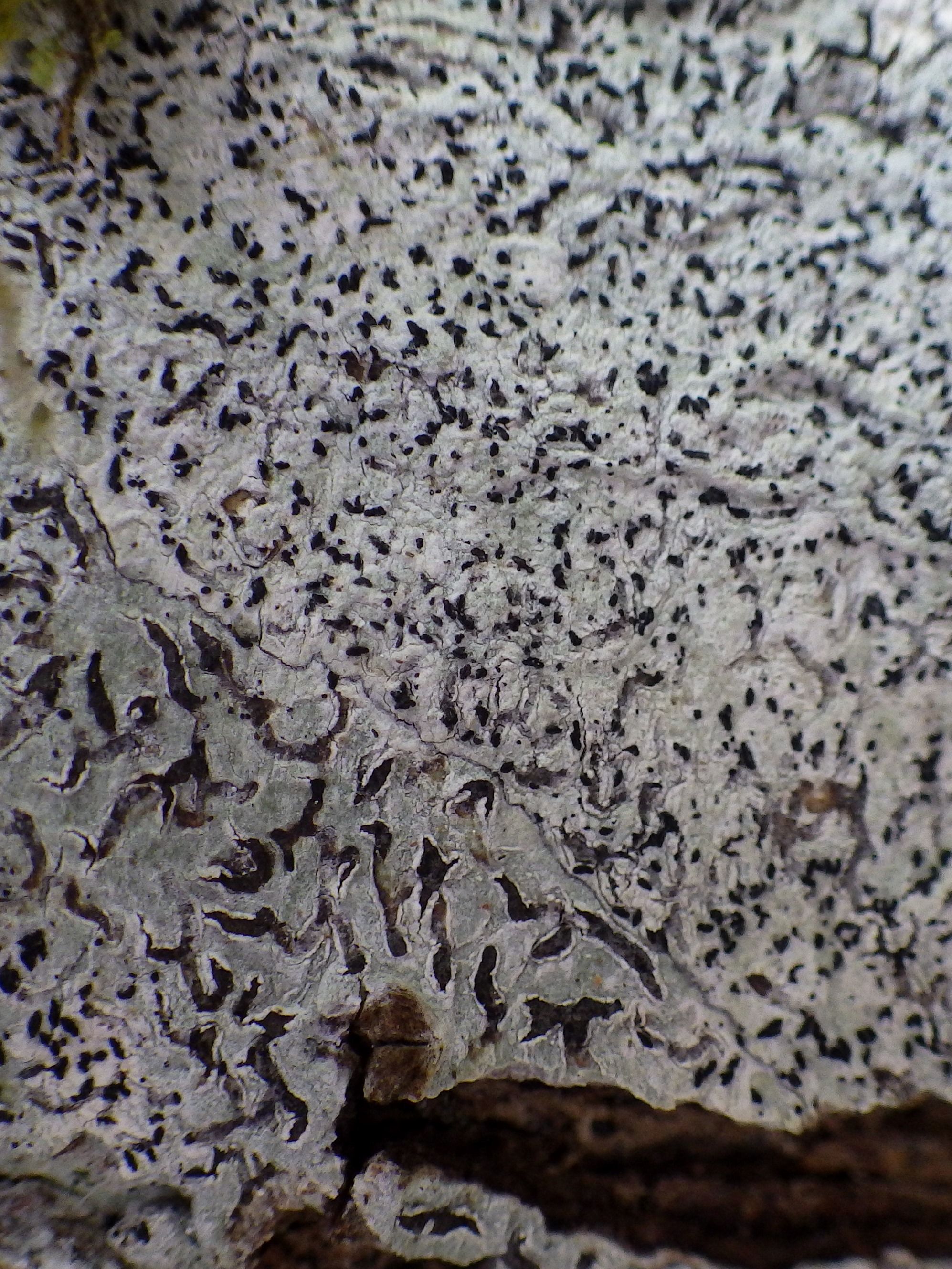 Melaspilea lentiginosa (Lyell ex Leight.) Müll. Arg. Image location: Sintra, Portugal The observation took place in an old woodland. Finaly, after several attempts, the species M. lentiginosa appeared. Its thallus developed in the middle of the thalli of a Graphis, on one side, and of a Phaeographis, on the other side, with no apparent parasitizing connexion. The (mature) spores are (brown) 1-septate, sole-shaped and small (11-14.5 × 5.5). The asci present an apical beak, characteristic of the genus. Used references: British Flora: Smith et al. (eds.); the Lichen of Great Britain and Ireland, The British Lichen Society, 2nd ed., 2009. Based on microscopic features For more information about this, see the observation page at Mushroom Observer.